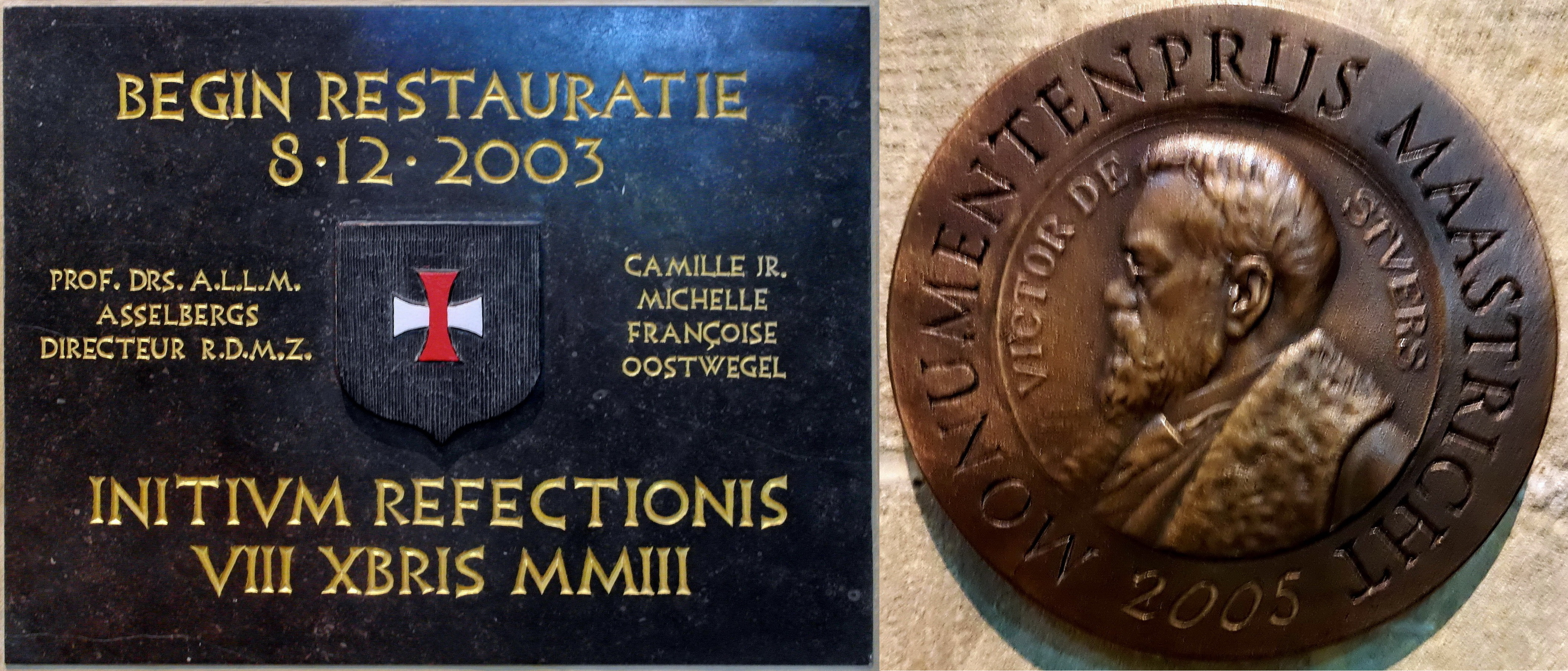 Left: Commemorative plaque of the start of the restoration of Kruisherenklooster inside Kruisherenkerk, Maastricht, the Netherlands. The plaque features the names of the director of the Dutch heritage organization (Monumentenzorg) and those of the three children of the owner of the building, hotel entrepreneur Camille Oostwegel. In the centre the red-white cross of the Canons Regular of the Order of the Holy Cross (Ordo Sanctae Crucis). Right: Commemorative plaque of "Monumentenprijs 2015" inside the church. The prize was given for the successful restoration and adaptation of the building to its new use. The prize is named after Victor de Stuers, native of Maastricht, and founder of the Dutch heritage organization (Monumentenzorg). The Gothic church and monastery of the Croziers (or Crutched Friars) dates from the 15th century and was converted into a luxury hotel (Kruisherenhotel) in 2003-05.